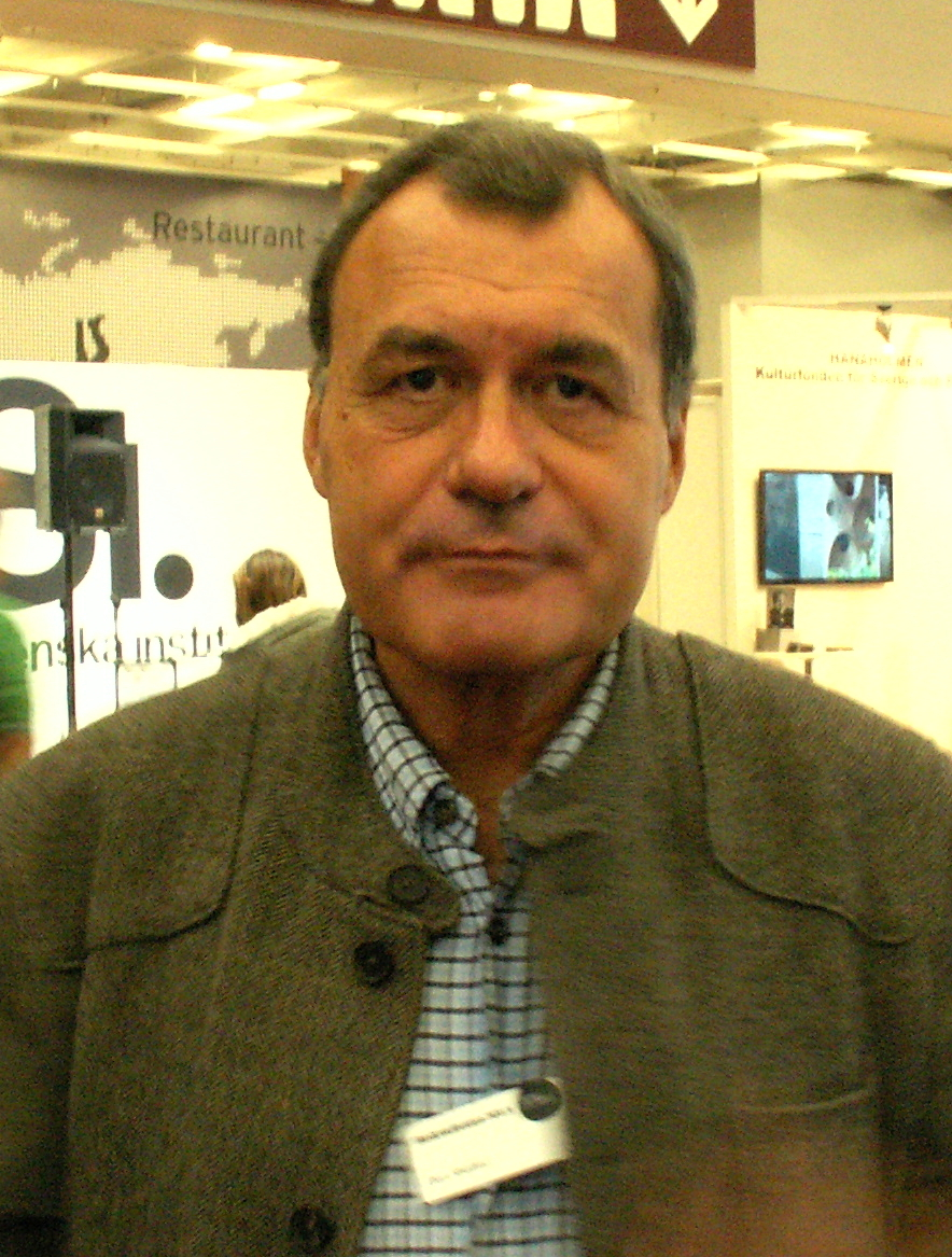 At the Göteborg Book Fair 2013.